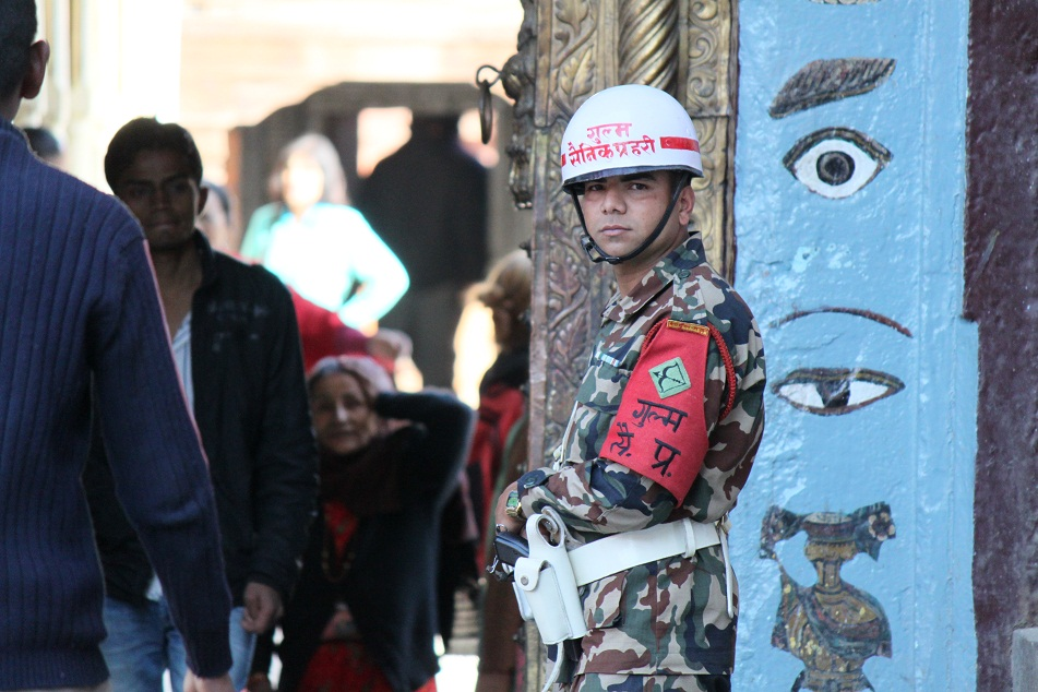 A soldier of the Nepalese military police